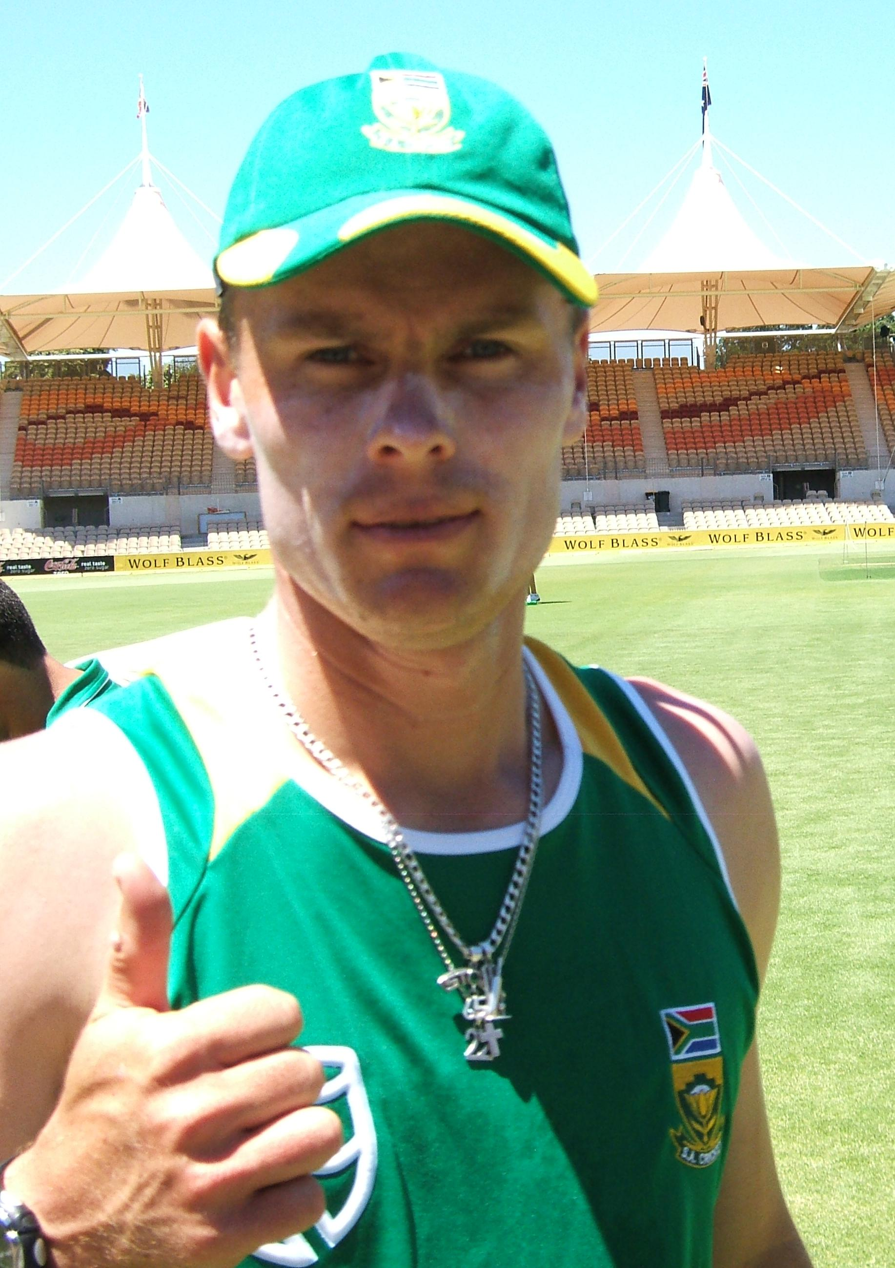 Johna Botha at a training session at the Adelaide Oval